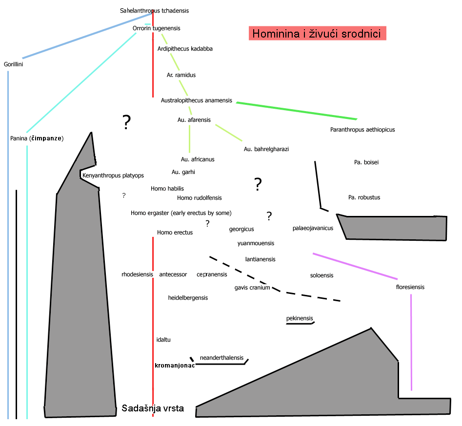 A chart depicting various Hominina-species and their approximate relations (the closer the nearer), according to wikipedia articles. Since this is a hotly debated subject, tried to make it neutral by leaving most connecting ancestral lines out. There is no exact timeline on the chart.